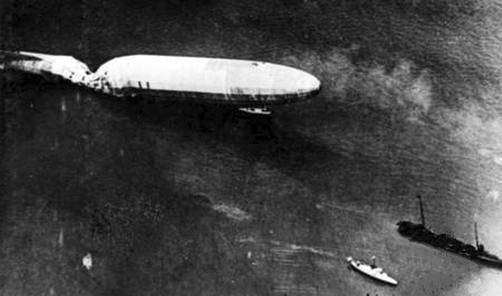 A German Zeppelin shot down by a British plane over the North Sea, with a German torpedo boat and a motor launch.